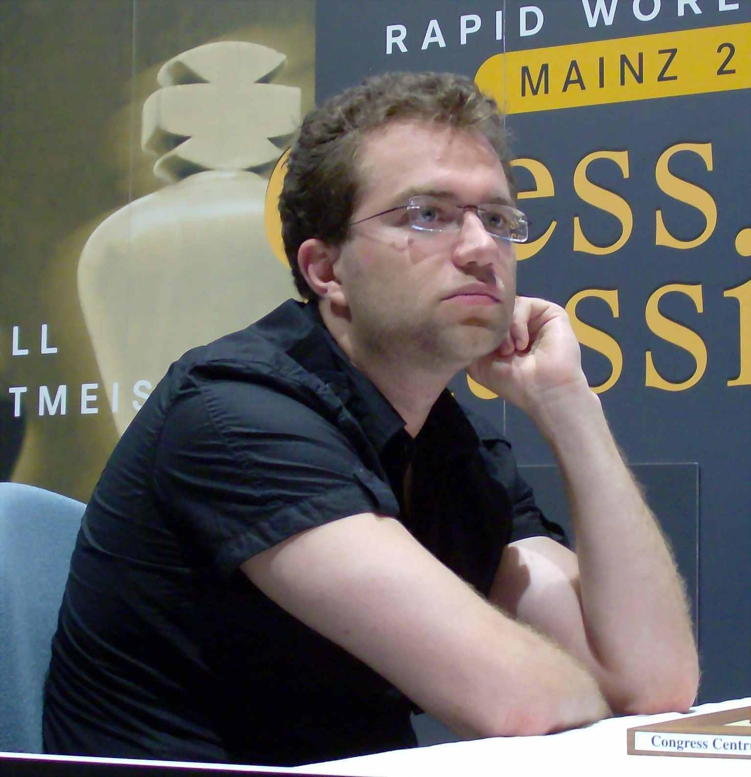 Pavel Eljanov at the Chess Classics 2008